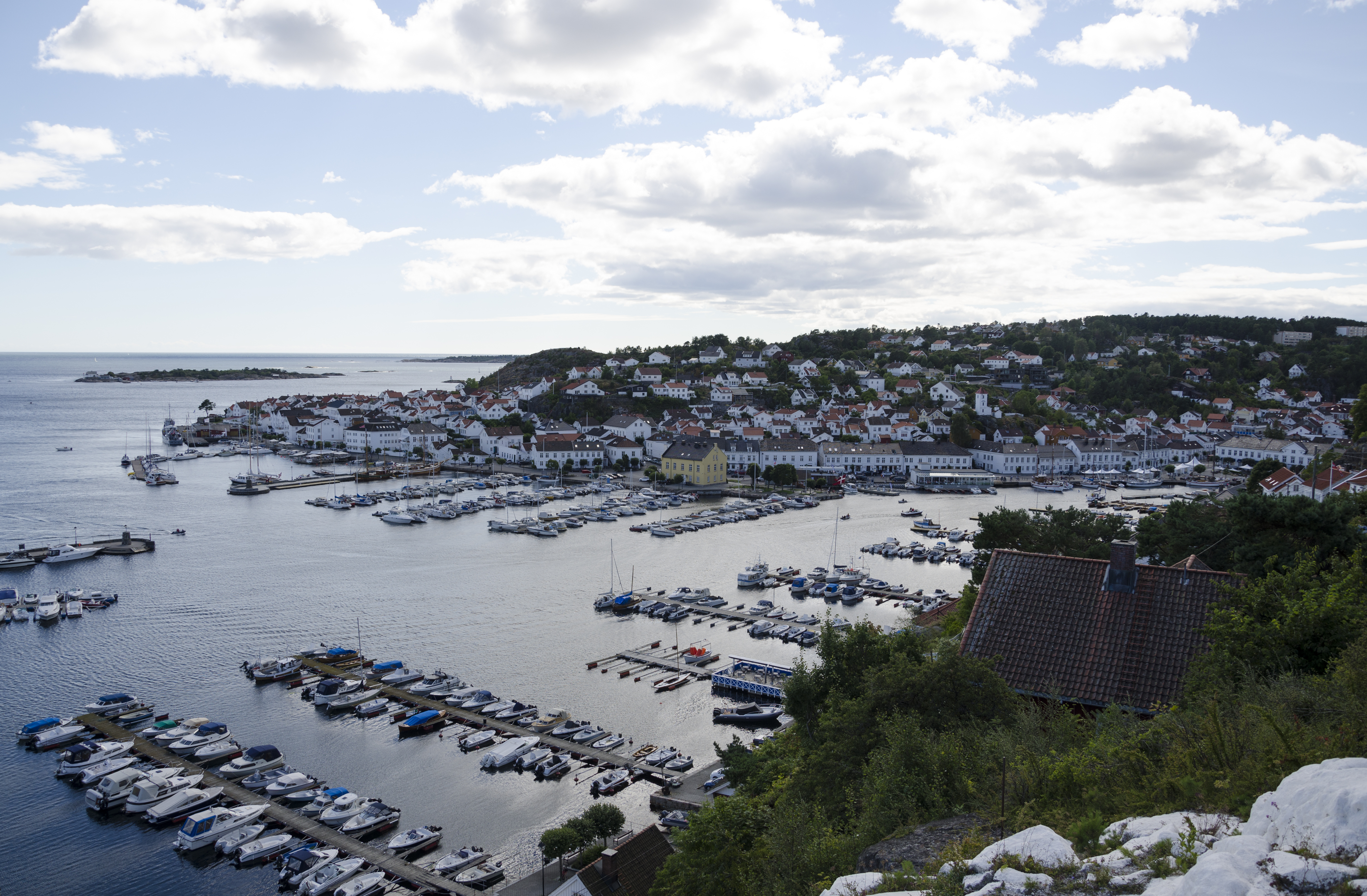 Risør seen from a hill above in august 2017.